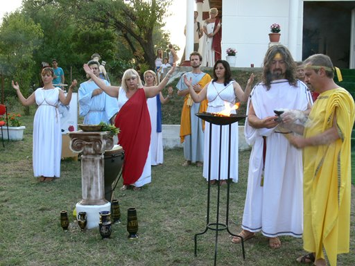 Ritual performed at temple in Thessaloniki.